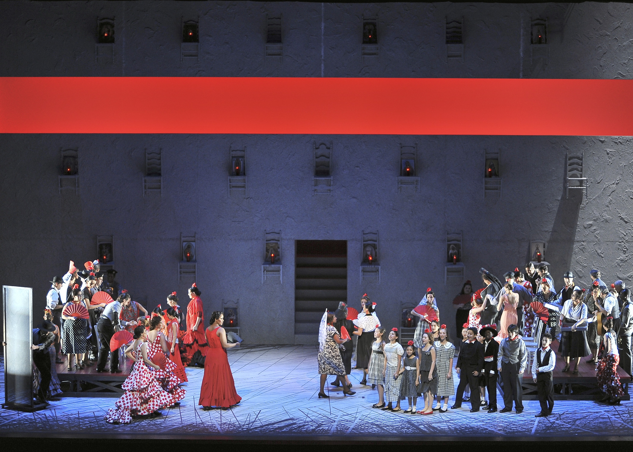 2009 - 2010 production of Carmen by Georges Bizet, part of FGO's Opera Free for All project.